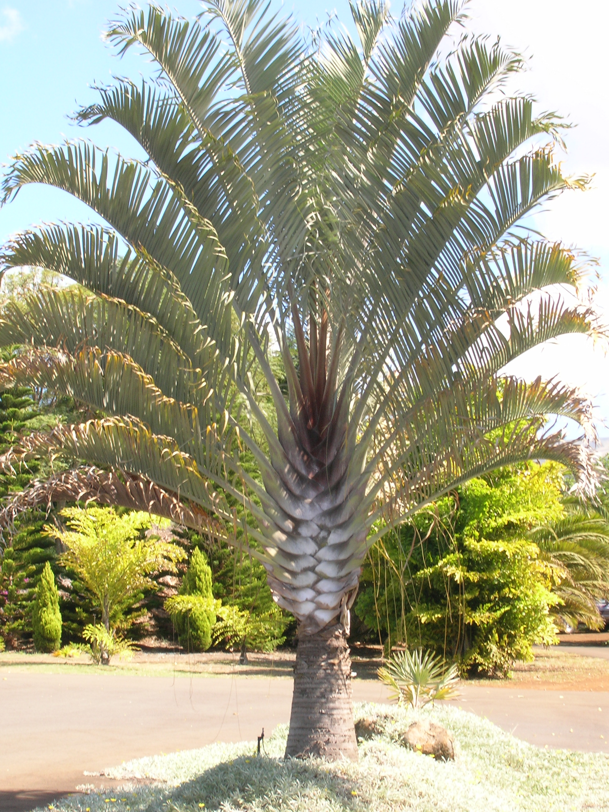 Neodypsis decaryi (habit). Location: Maui, Enchanting Floral Gardens of Kula